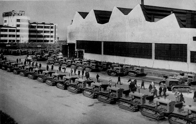 Iron Soldiers in Single File Line Up in Chelyabinsk before Russia's Biggest Tractor Factory. "Surround these American-designed machines with armour and guns and you have tanks. Chelyabinsk remained unscathed in the Urals while war devastated Leningrad, Kharkov and Stalingrad, and other tractor centres. Under the Tsars, the town was a stopover for exiles."